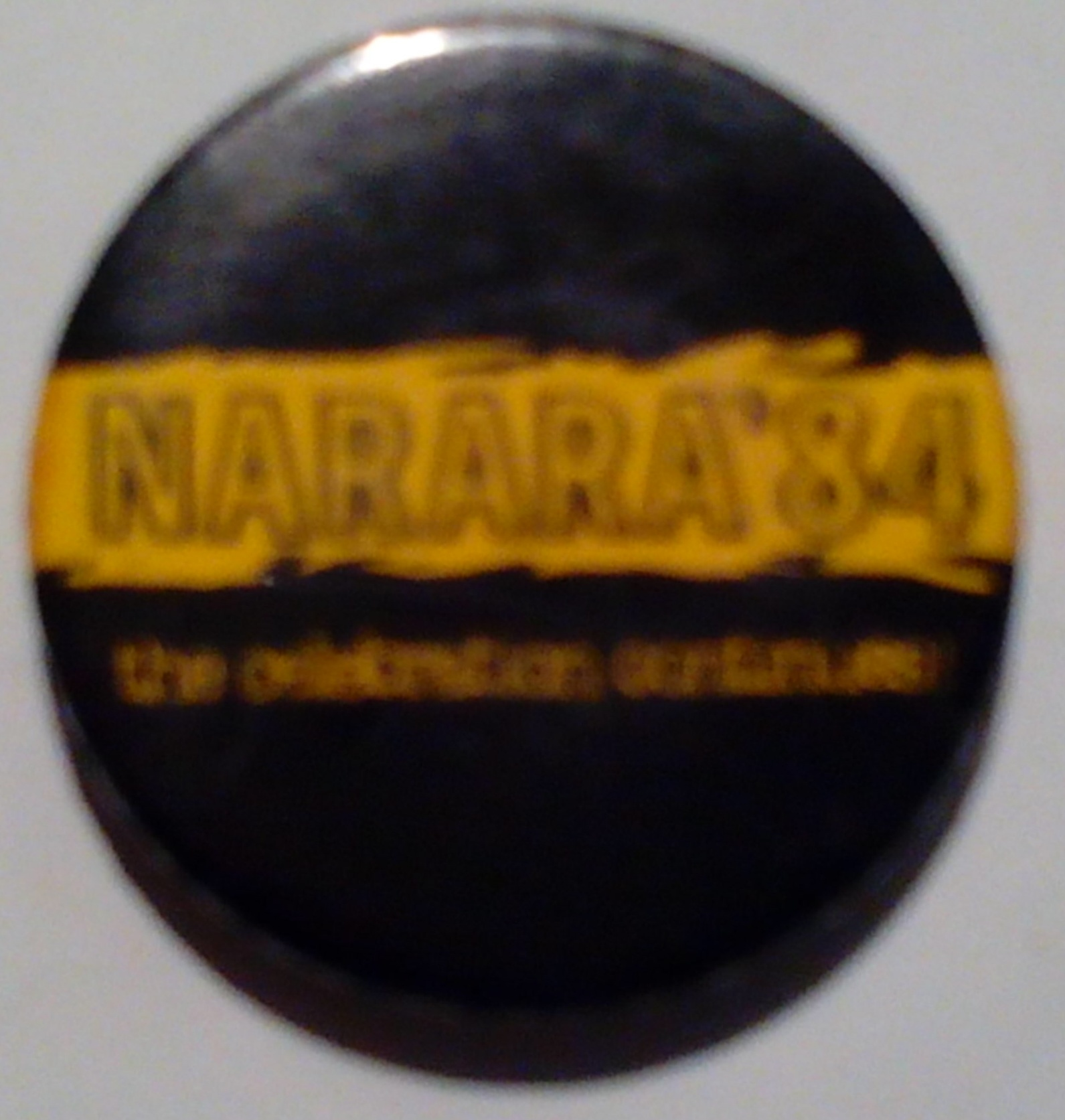 Picture of a badge from the Narara Music Festival in 1984